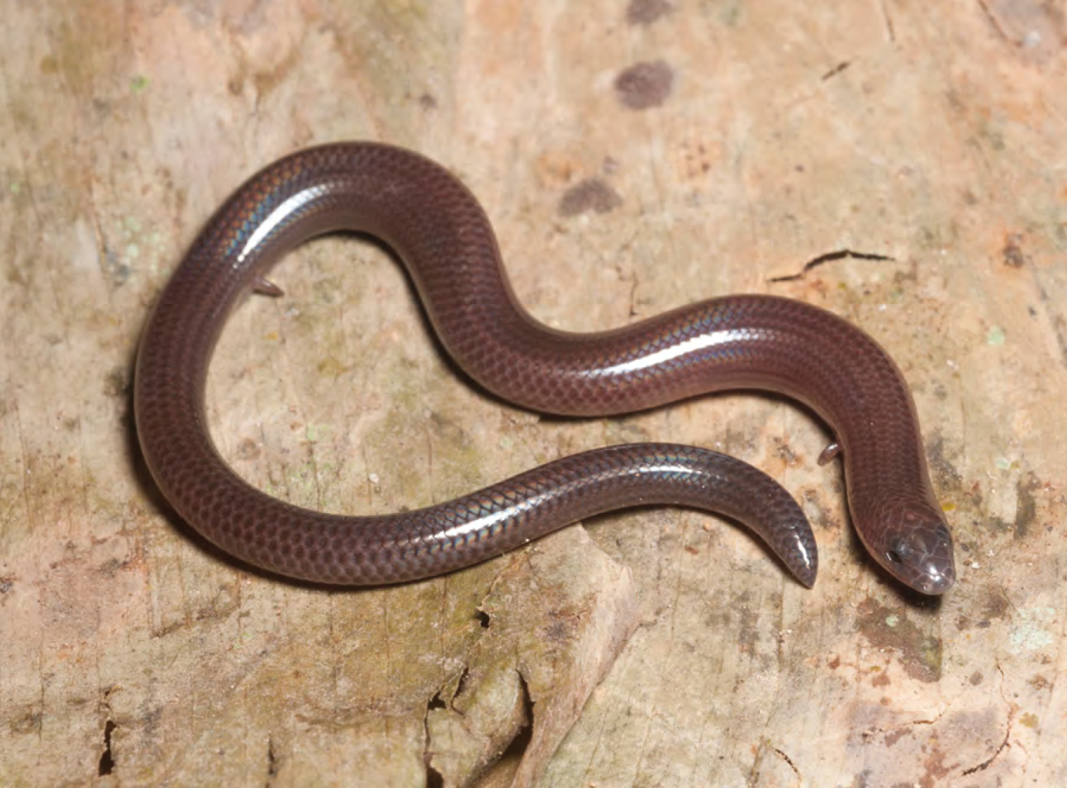 Brachymeles bonitae (KU 330100) from mid-elevation, Mt. Cagua. Photo: RMB.